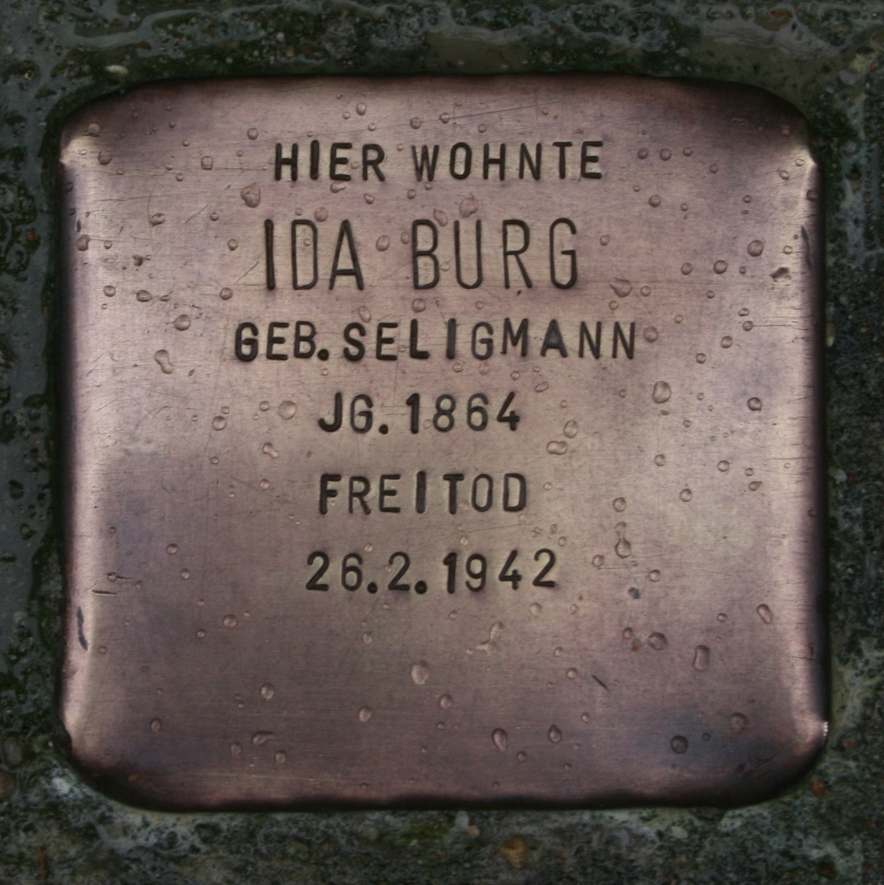 Stolperstein for Ida Burg in Hamburg-Bergedorf, Hermann-Distel-Straße 34. Ida Burg was a victim of Nazism